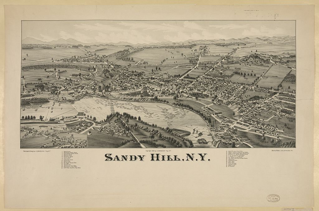 Title: Sandy Hill, N.Y Physical description: 1 print : lithograph, 1 tint stone. Notes: Pub., drawn, & copyr. L.R. Burleigh, Troy, N.Y. 1884.; Associated name on shelflist card: Beck & Pauli. On P&AGA card: Beck & Pauli Litho. Milwaukee.; This record contains unverified data from PGA shelflist and P&AGA catalog cards.; 33 numbered references.